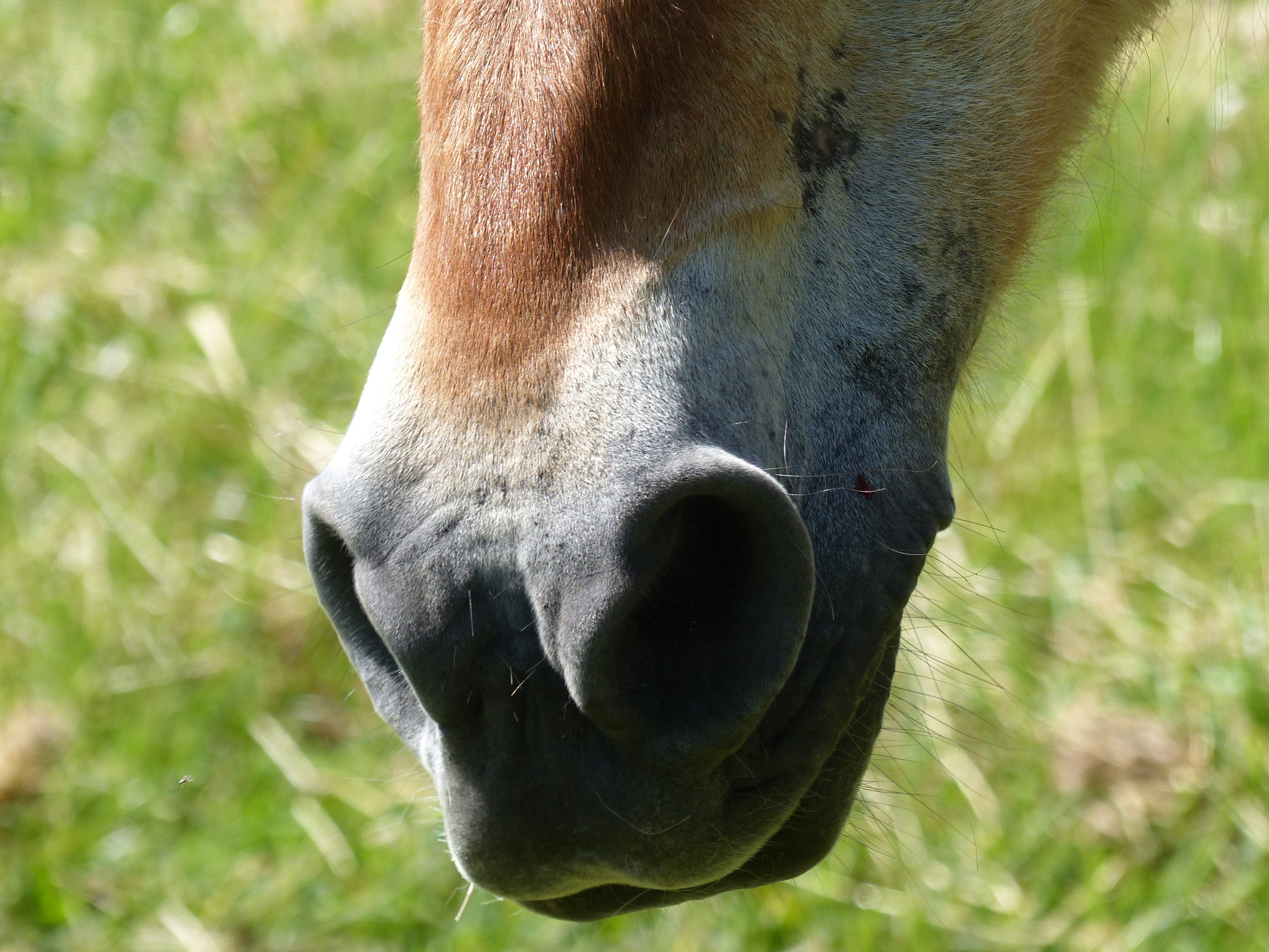 Fjord horse muzzle.